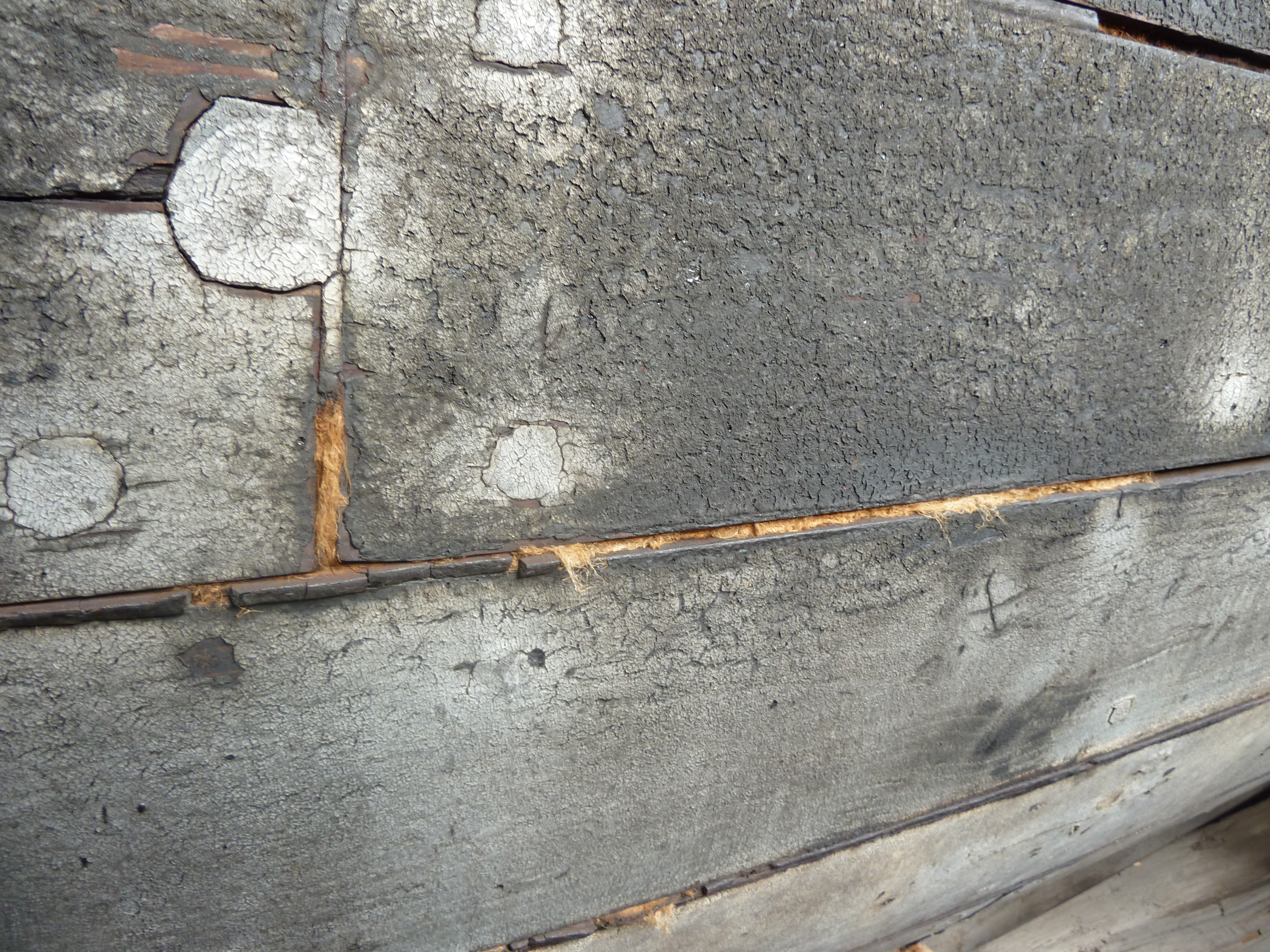 Severn trow, Spry Dried-out hull caulking, after fifteen years ashore.